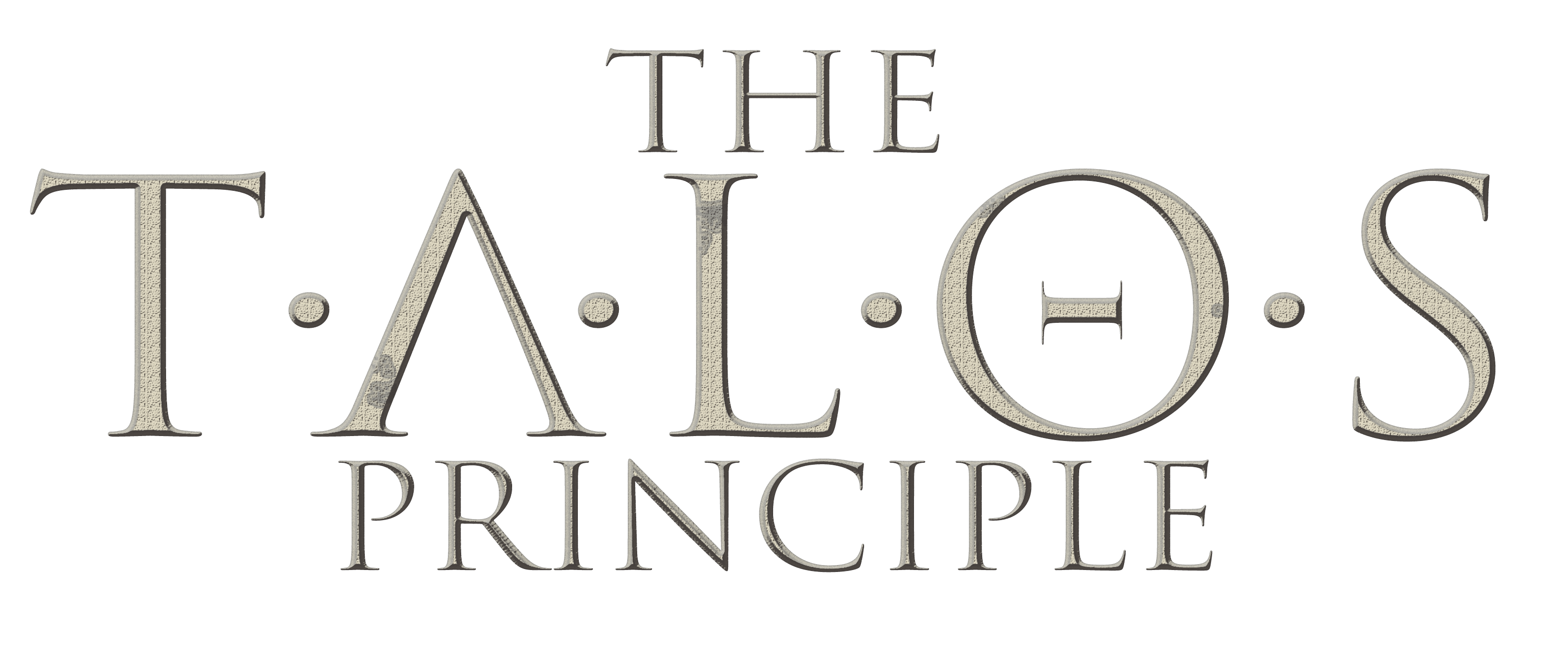 Logo of The Talos Principle (Light version)